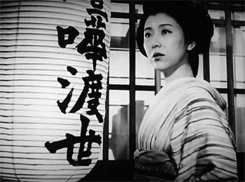 Keiko Tsushima in 1952 Japanese movie Mazō